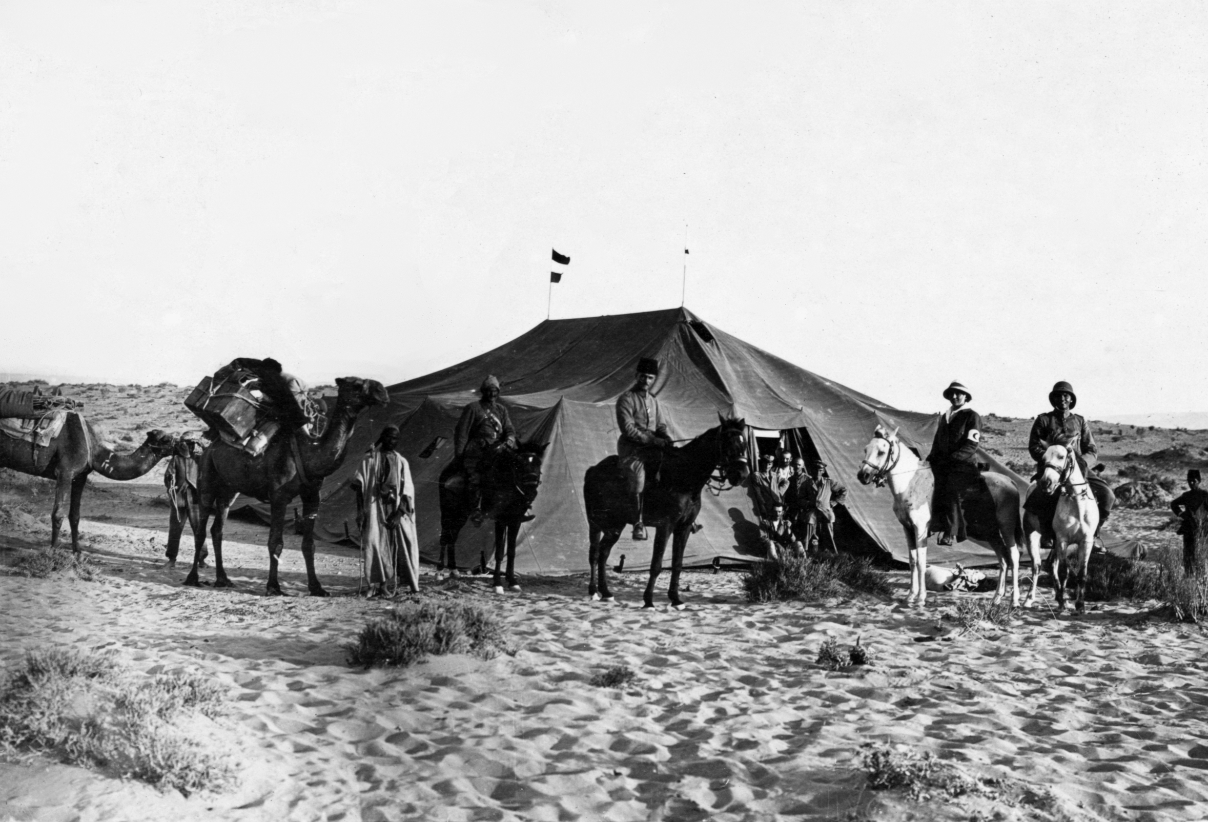 Photograh of military personnel at the German Station at Abou Augeileh.